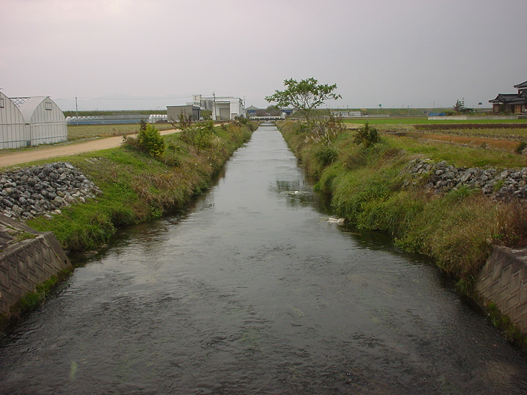 Gando River in Toyama, Japan.